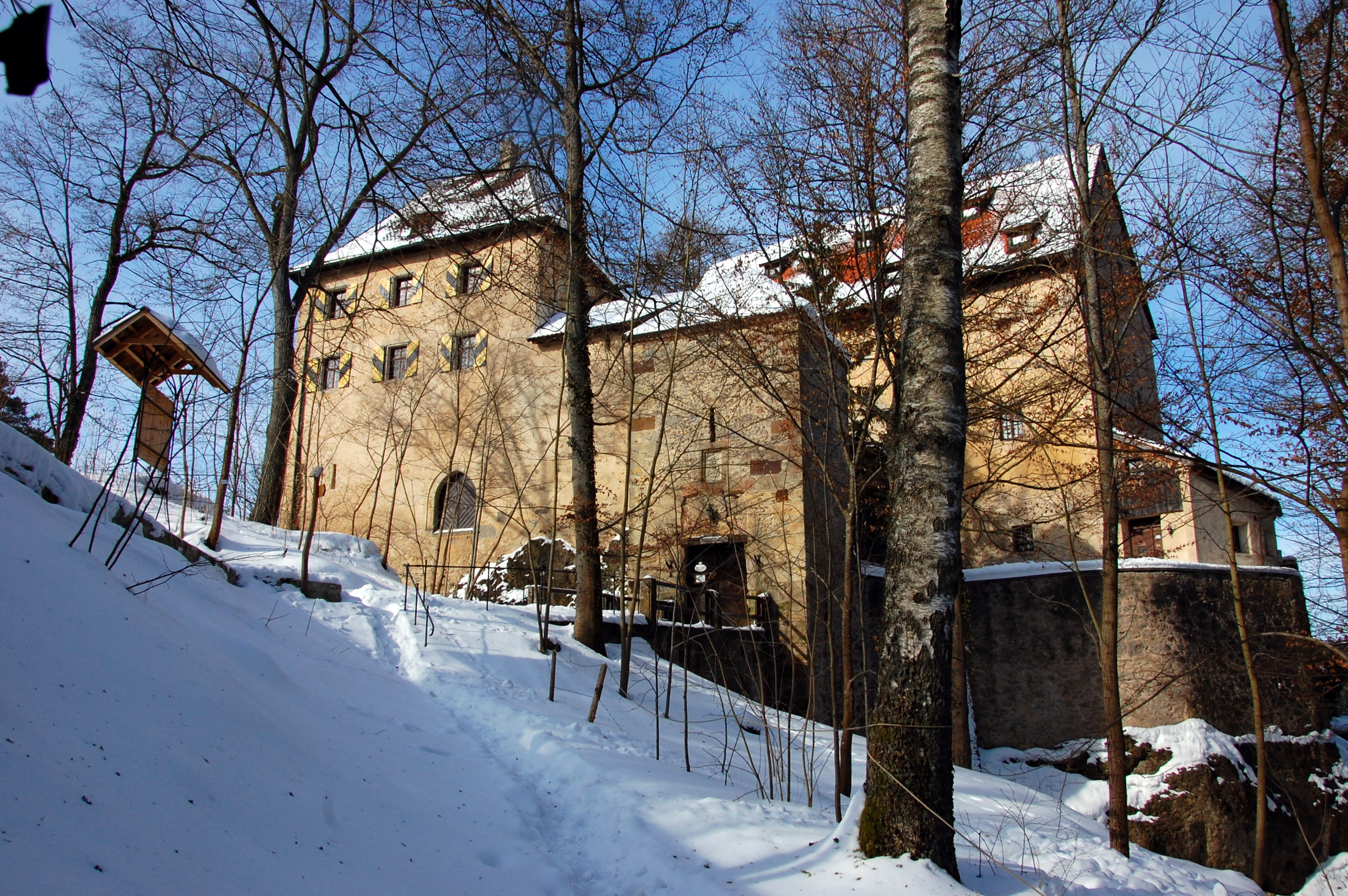 Temporary view to castle Rabeneck